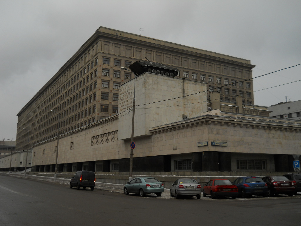 Moscow, Devychego Polya Lane, 4. Frunze Military Academy.